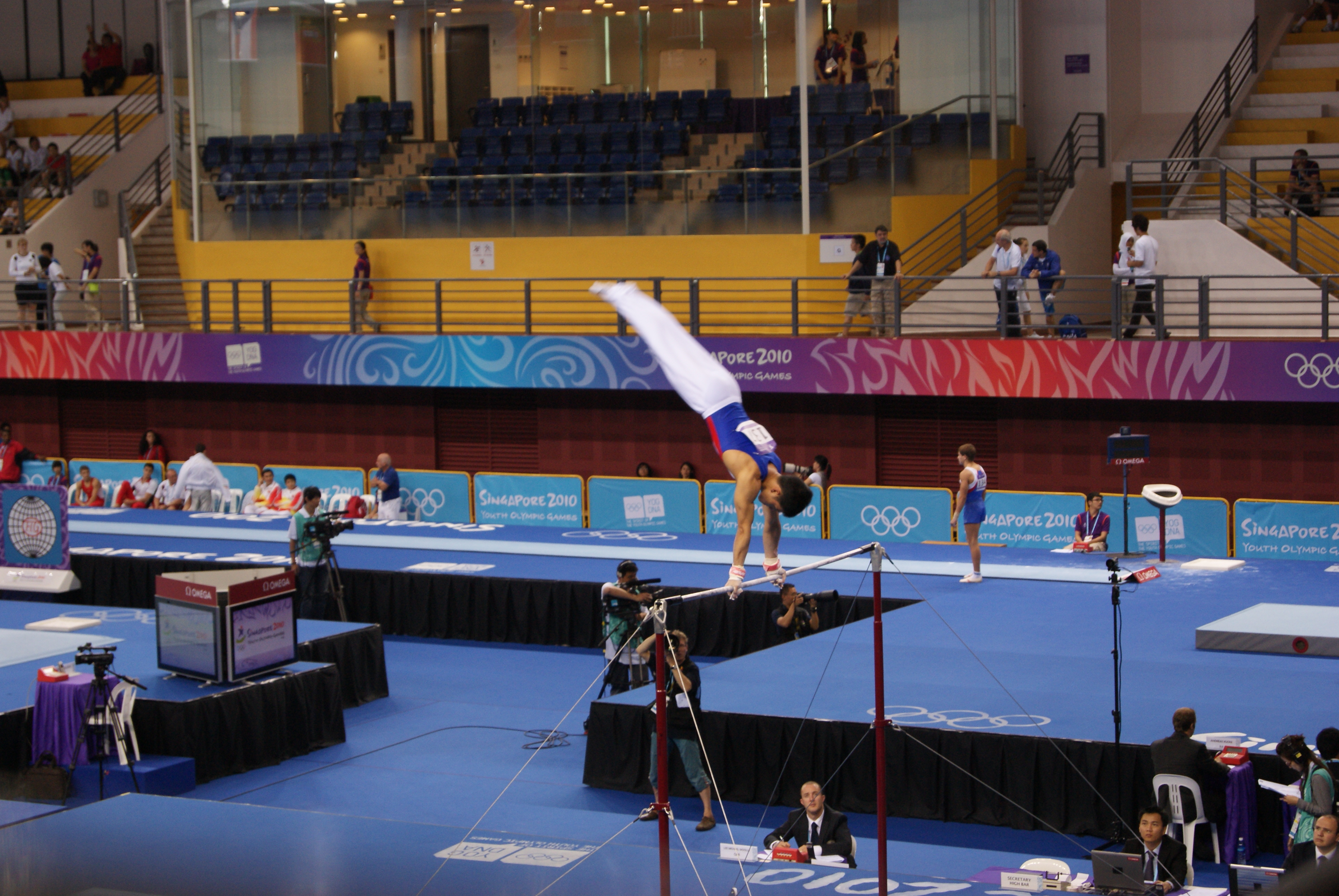 Thai gymnast Weena Chokpaoumpai performing on the horizontal bar during Men's Qualification – Subdivision 1 of the artistic gymnastics competition at the 2010 Summer Youth Olympics at Bishan Sports Hall, Singapore.